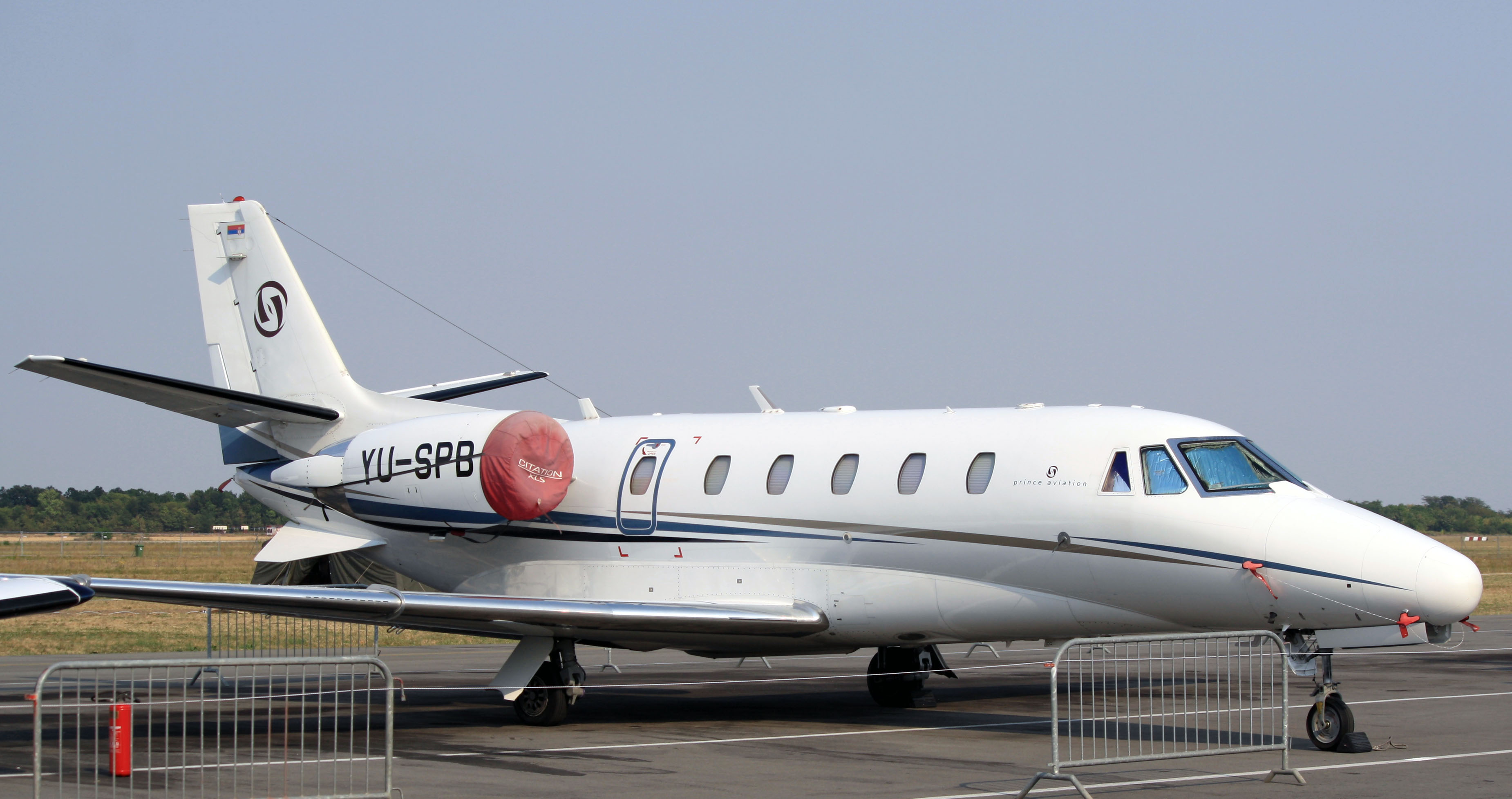 Cessna 560XL Citation XLS of Prince aviation on display at Batajnica Air Show 2012 held to celebrate 100 years of Serbian Air Force.